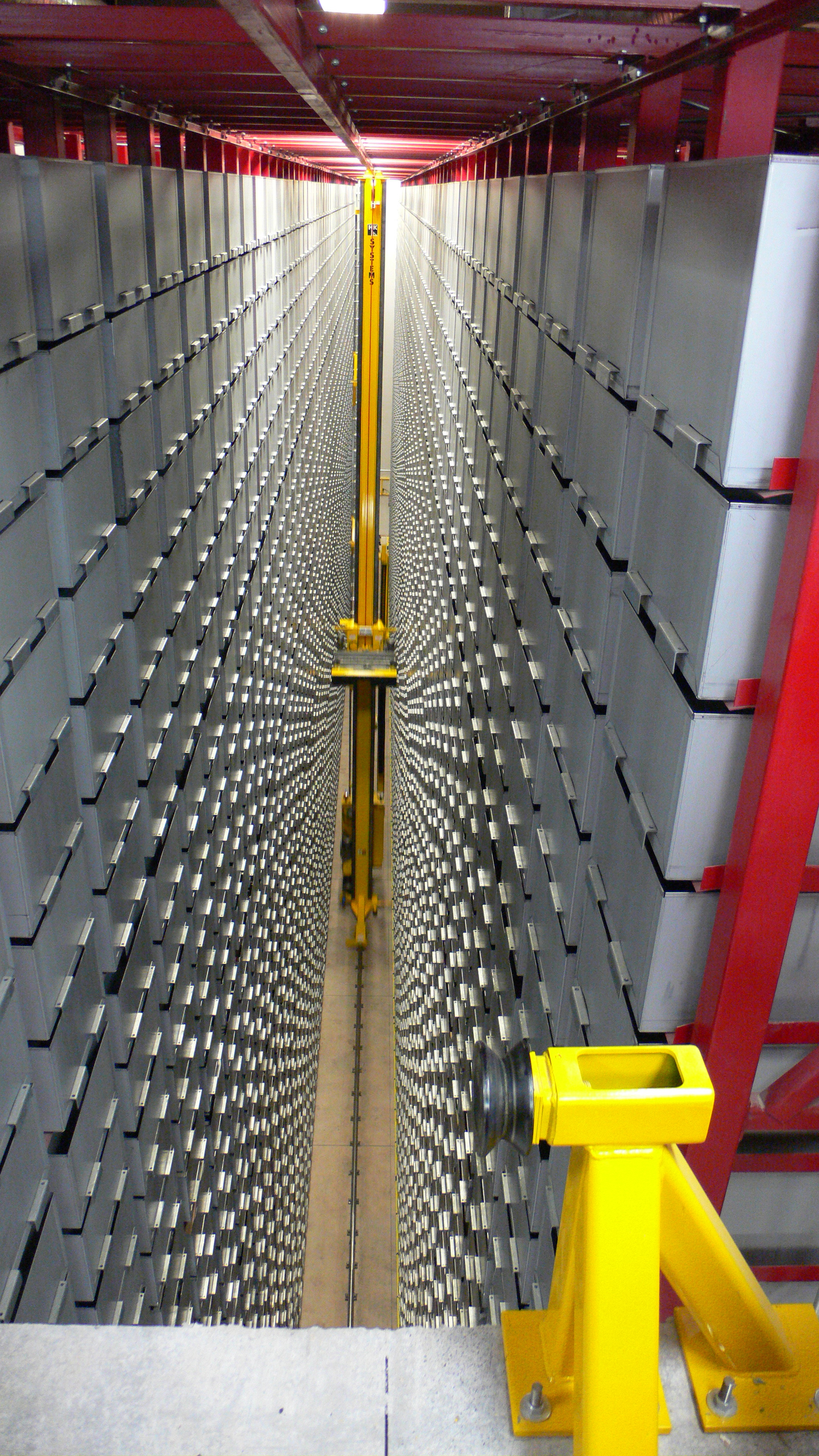 Remote book fetcher located in the J. Willard Marriott Library at the University of Utah.